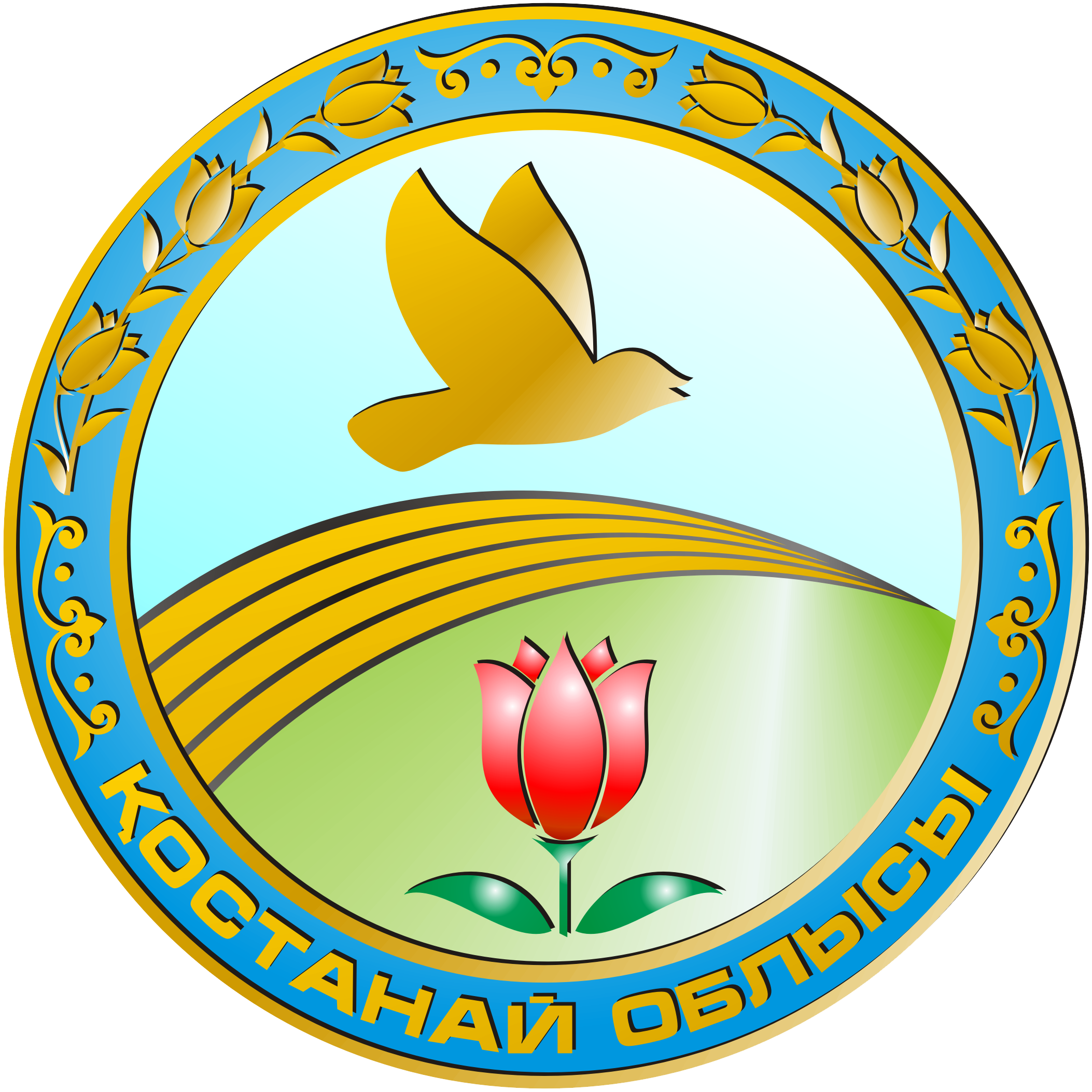 Coats of arms of Kostanay Province